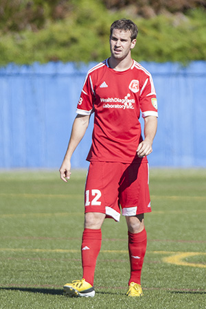 Photo of soccer player Brian Ownby